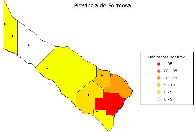 Demografia de Formosa